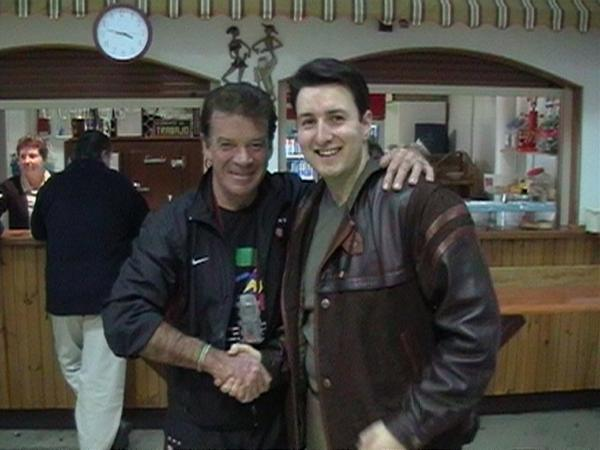 Johnny Warren with Maurice Novoa visiting the Uruguayan Social Club of Melbourne